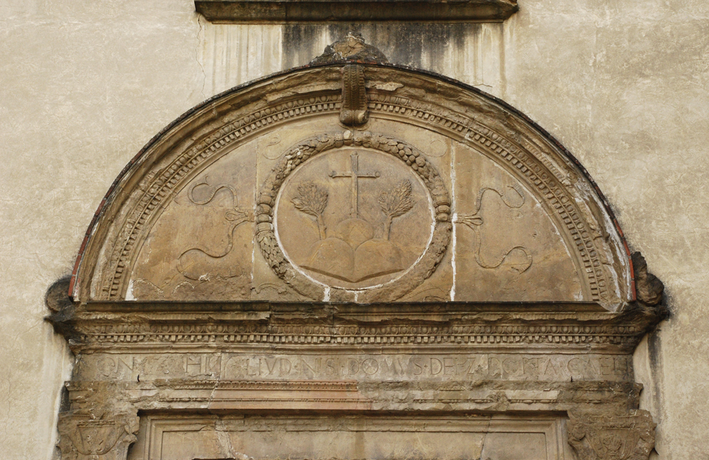 the Church of San Bartolomeo at Monte Uliveto, Florence, Italy. Church. Facade: Lunette with Escutcheon (above the Portal).